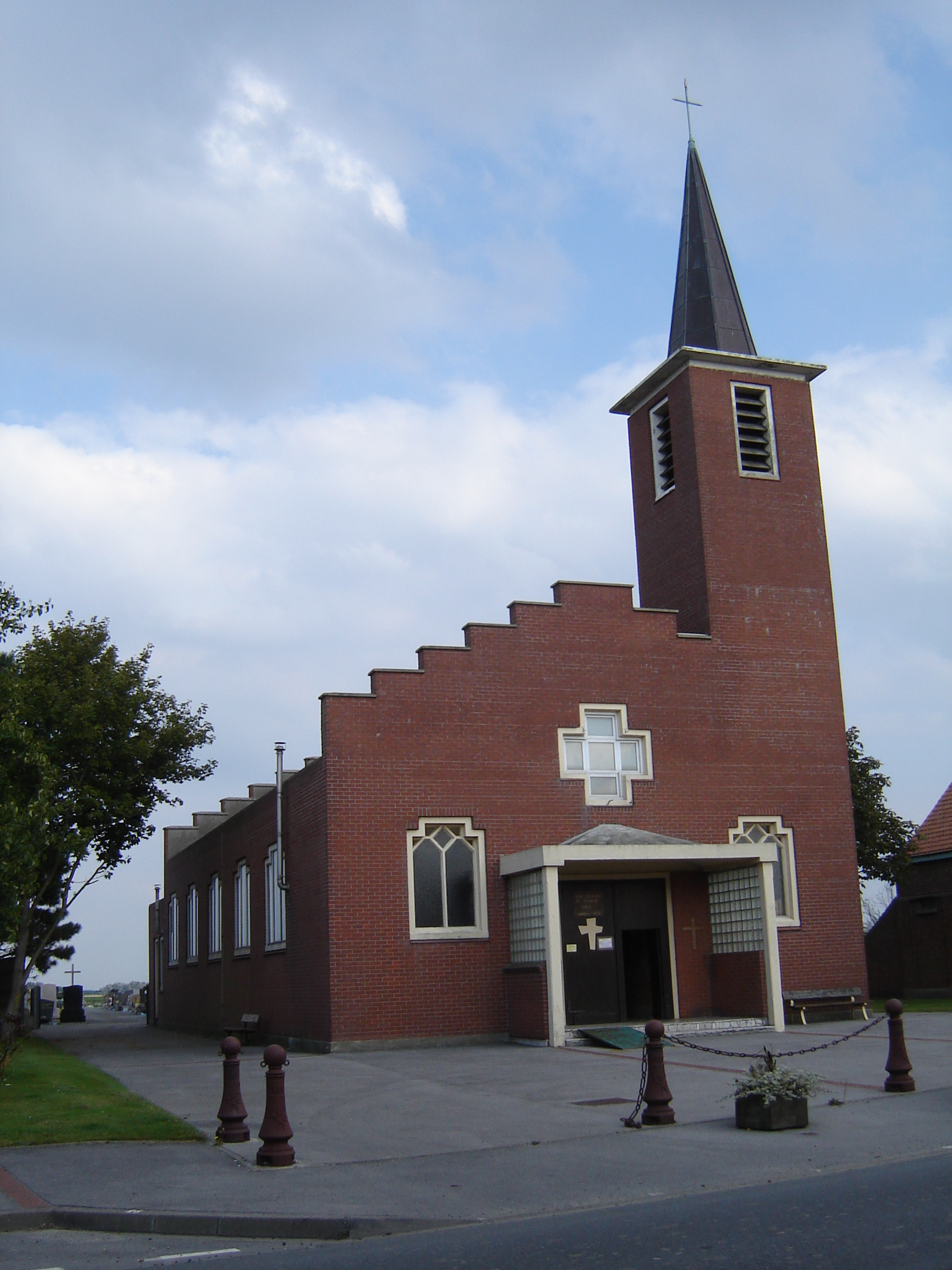 Church of Saint Nicholas in Zuydcoote. Zuydcoote, Nord, Nord-Pas-de-Calais, France